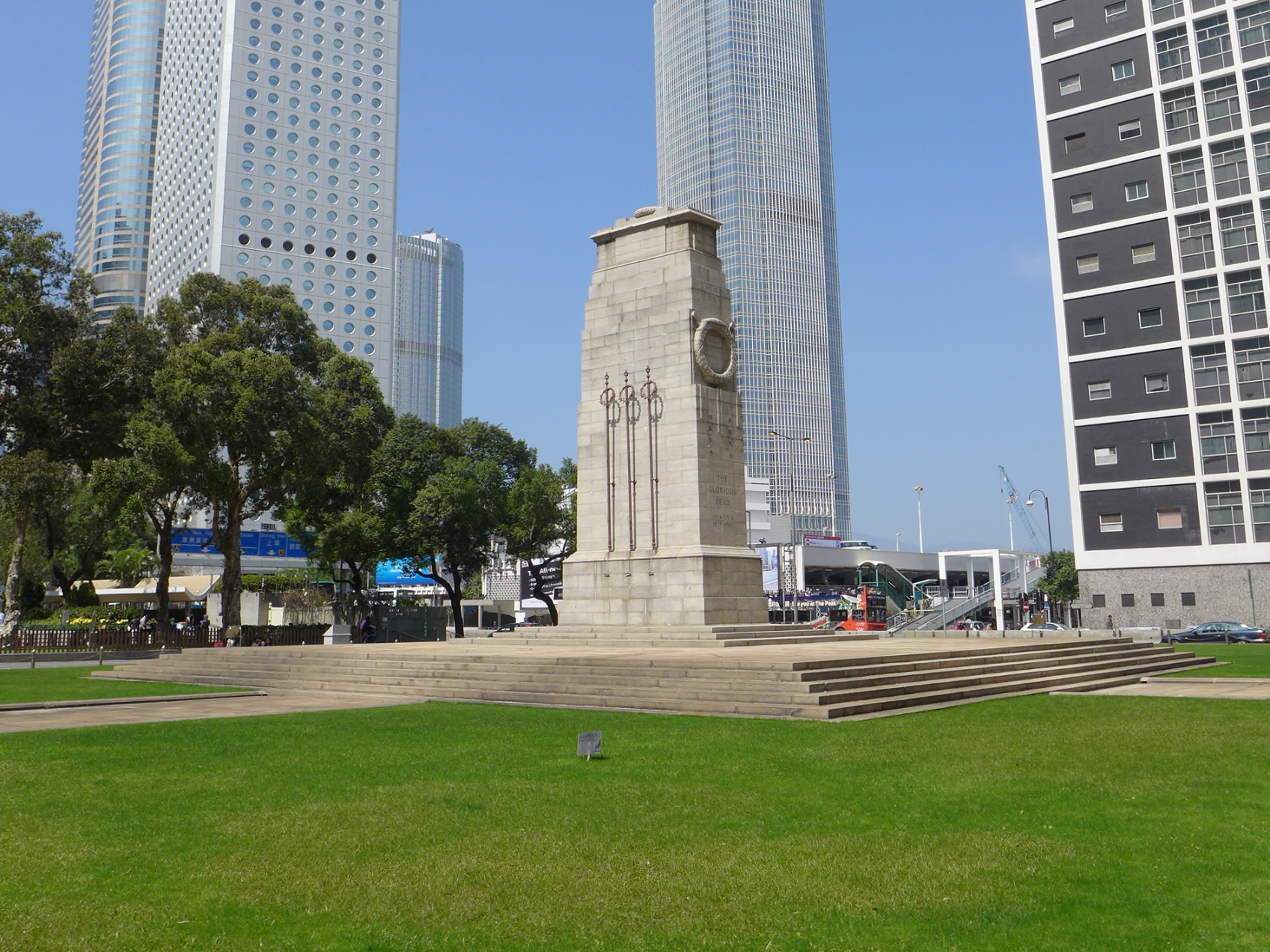 The Cenotaph